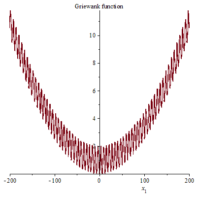 !st order Griewank function